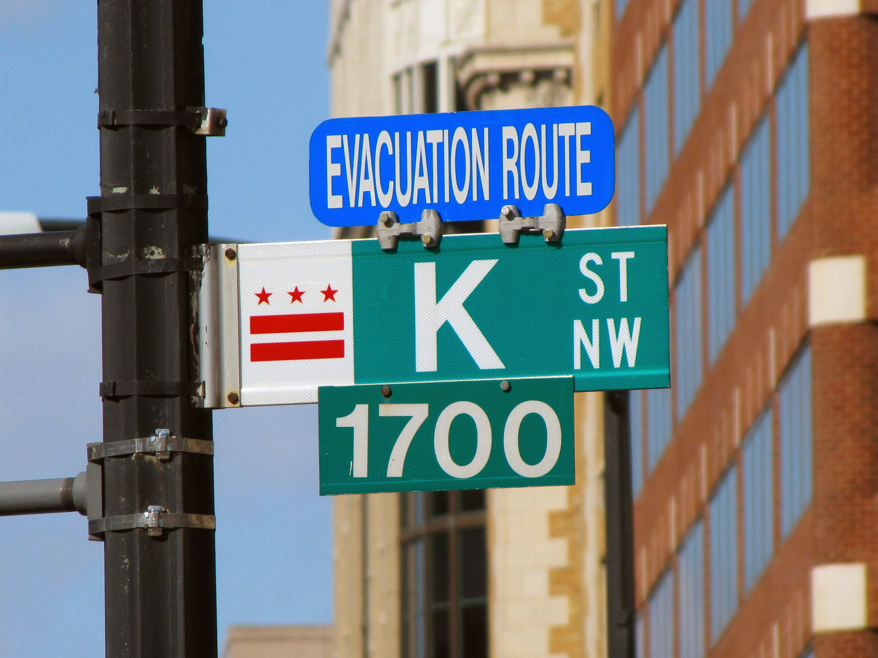 K Street NW street sign with DC flag and "EVACUATION ROUTE" markings, at the northwest corner of Farragut Square.